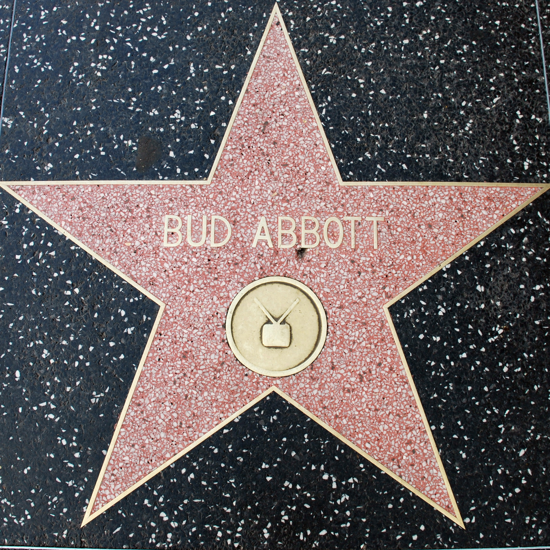 Bud Abbott's star on the Hollywood Walk of Fame for his work on television. Los Angeles Historic-Cultural Monument No. 194, the Hollywood Walk of Fame. Big Orange Landmarks